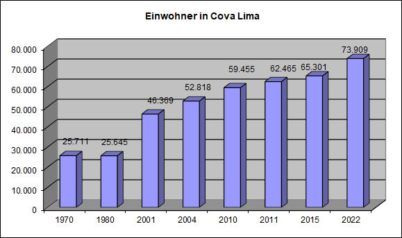 Population in Cova Lima/East Timor